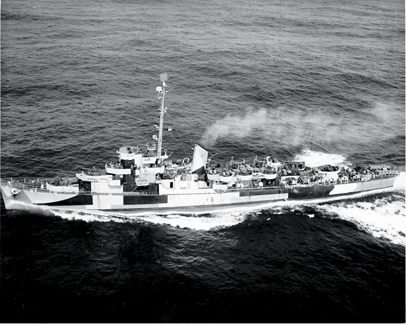 USS Atherton (DE-169), 8 May 1945: off Point Judith RI - Taken from an ASW blimp during the attack on U-853.